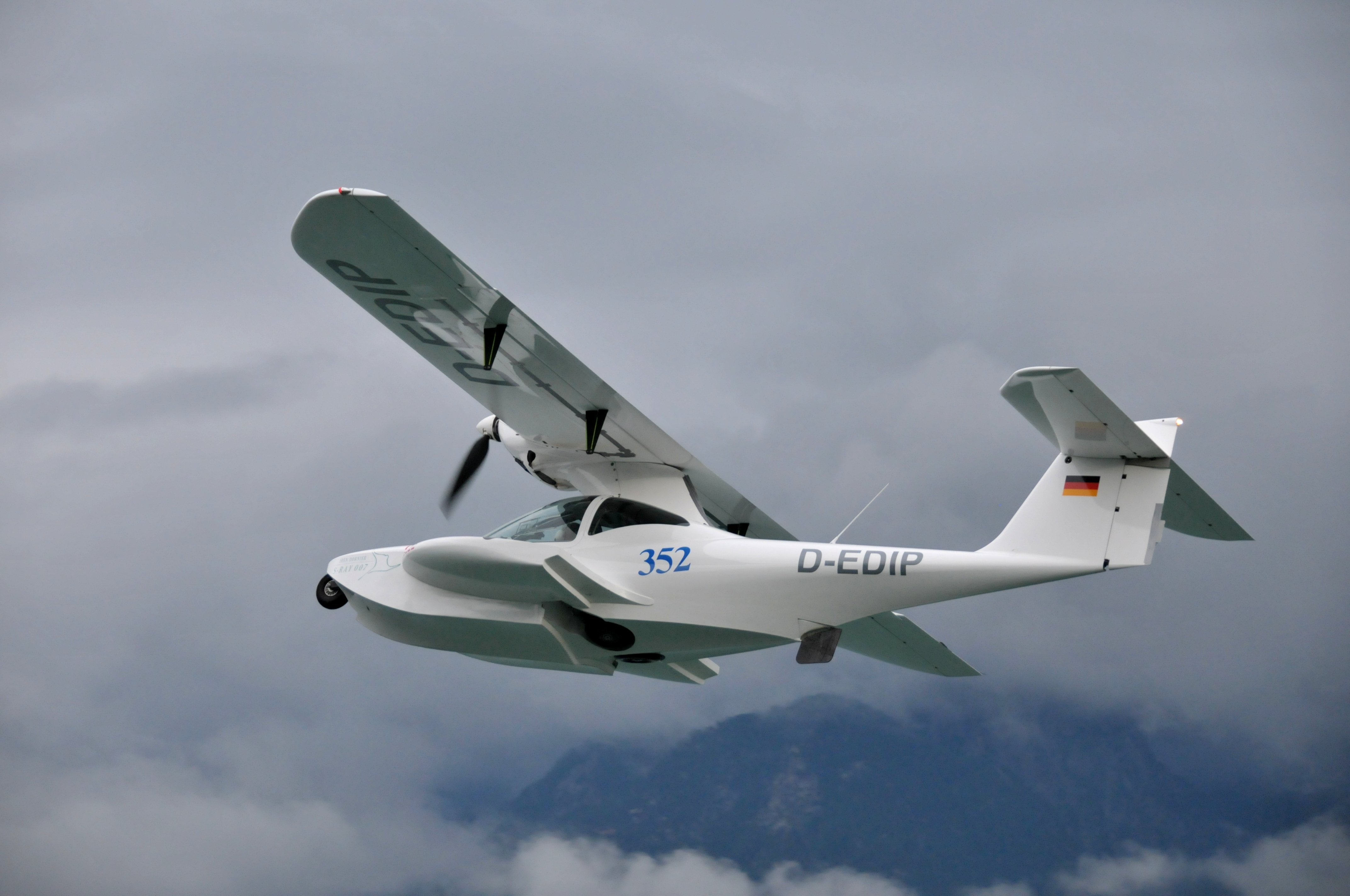 Dornier S-Ray 007 at the Scalaria Air Challenge ; D-EDIP